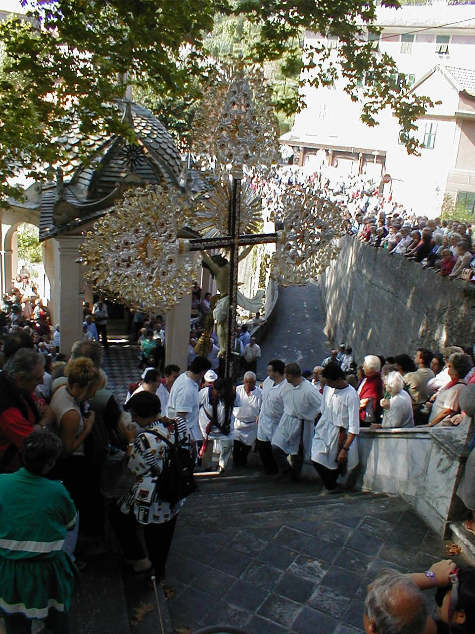 Procesion of Saint Strair of Genoa at the Acquasanta